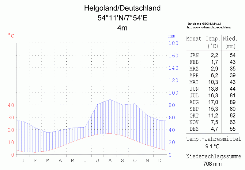 climate chart in the format by Walther and Lieth, metric, °Celsisus and millimeters, made with Geoklima 2.1